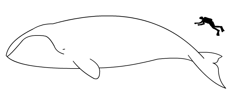 Size comparison of an average human and a Bowhead whale